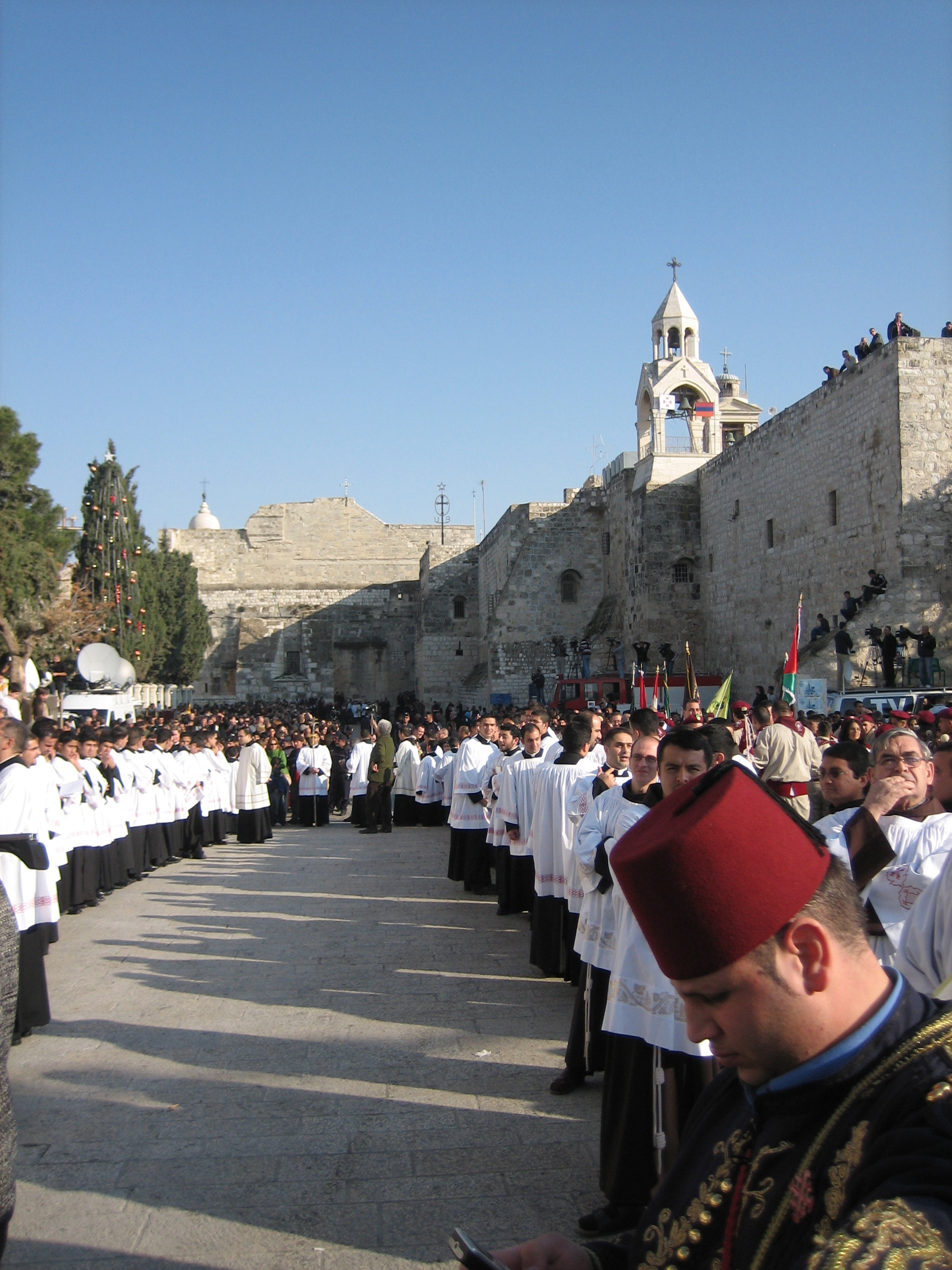 Catholic procession on Christmas Eve in Bethlehem (2006) / Katolička procesija na Badnjak u Betlehemu (2006)